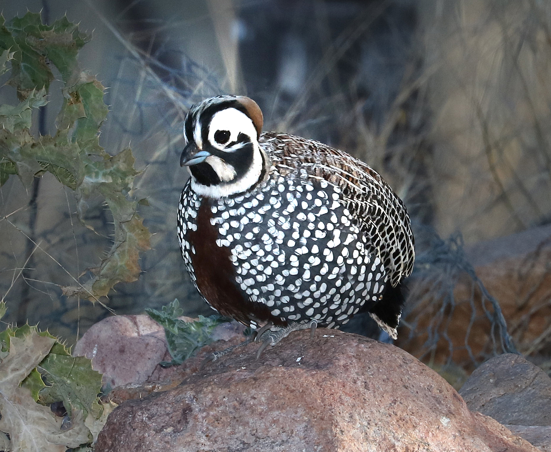 ABA AREA BIRDS: My Photo "Life List"